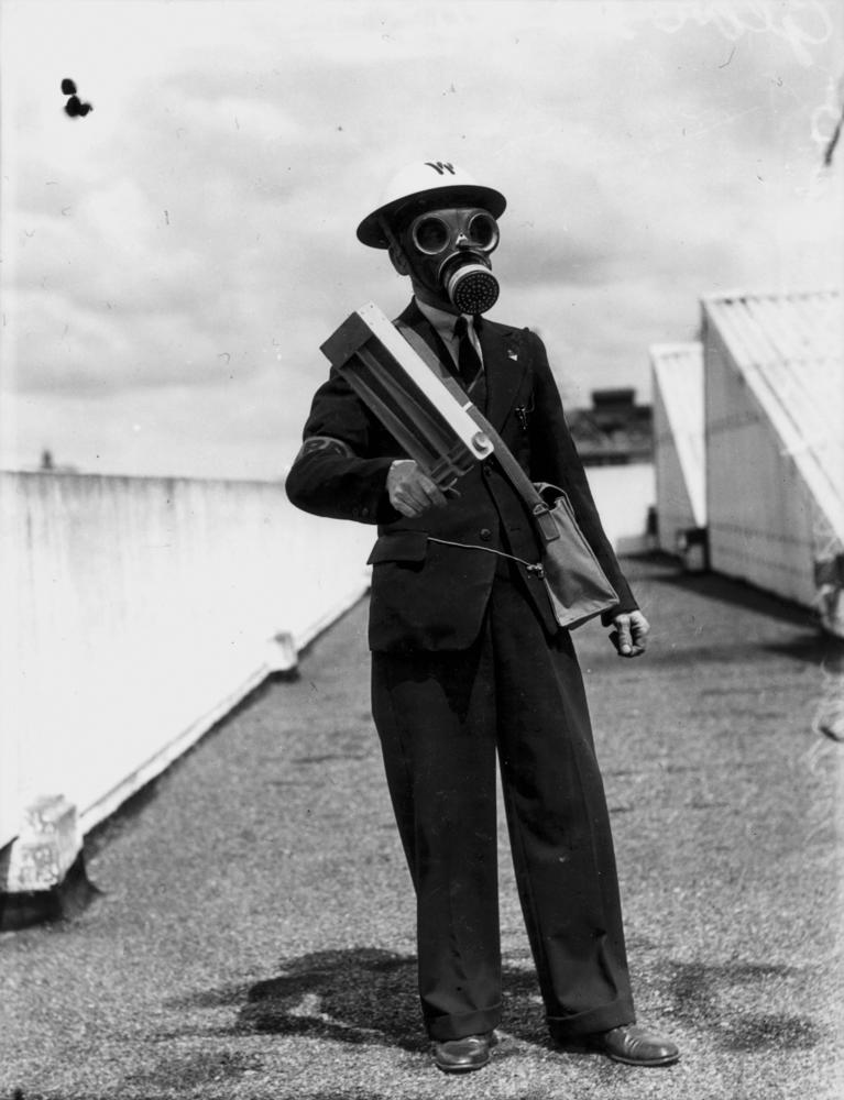 Air Raid Warden testing new equipment in Brisbane, October 1942. Description: See Courier Mail, 22 January 1942, p. 3. Wardens want helmets.